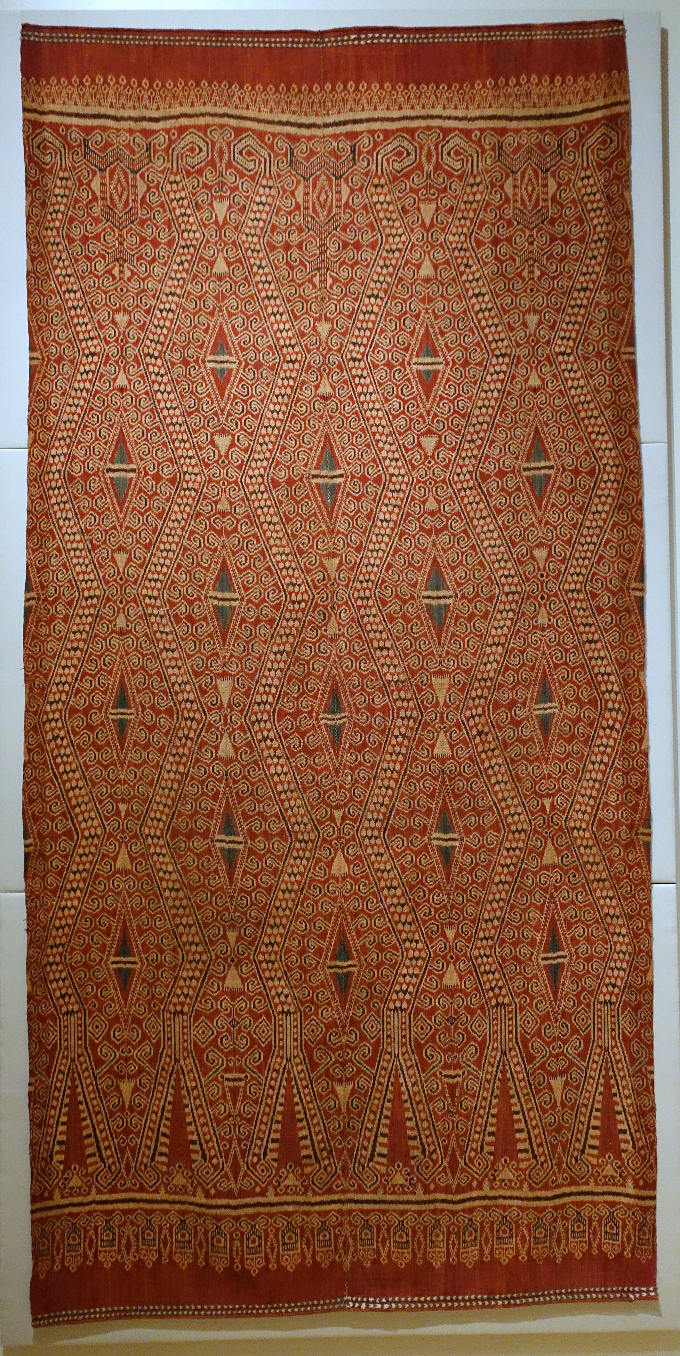 Exhibit in the Textile Museum, George Washington University, Washington, DC, USA. This work is old enough so that it is in the public domain.